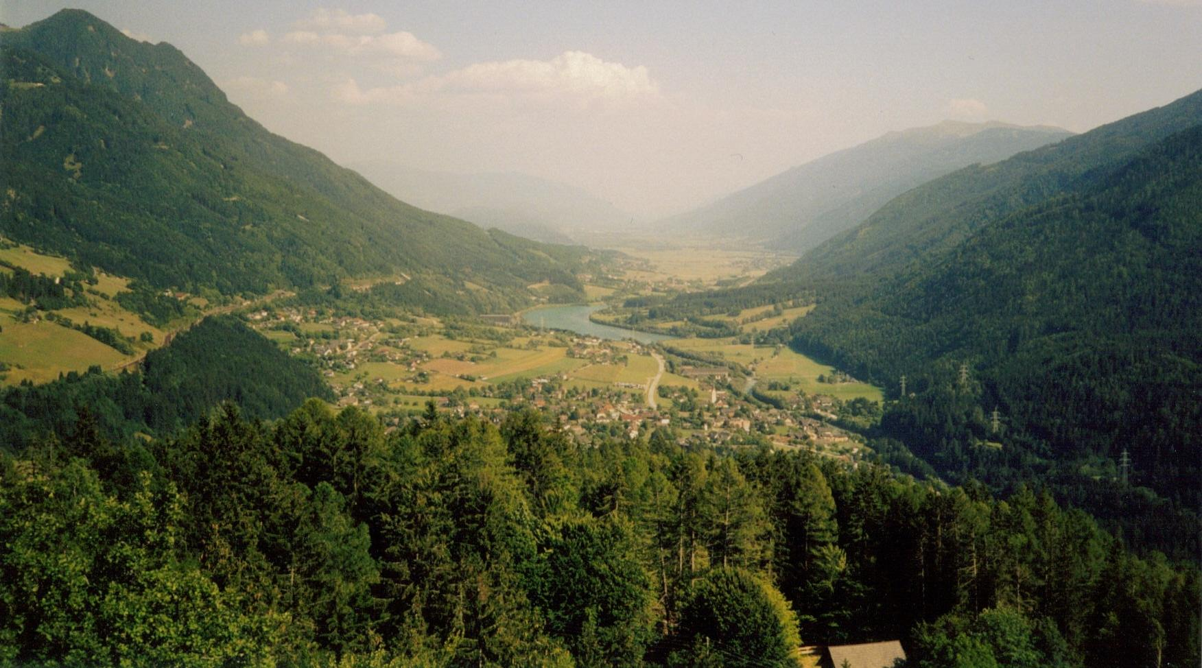 Mölltal seen from Danielsberg in Carinthia / Austria / European Union.